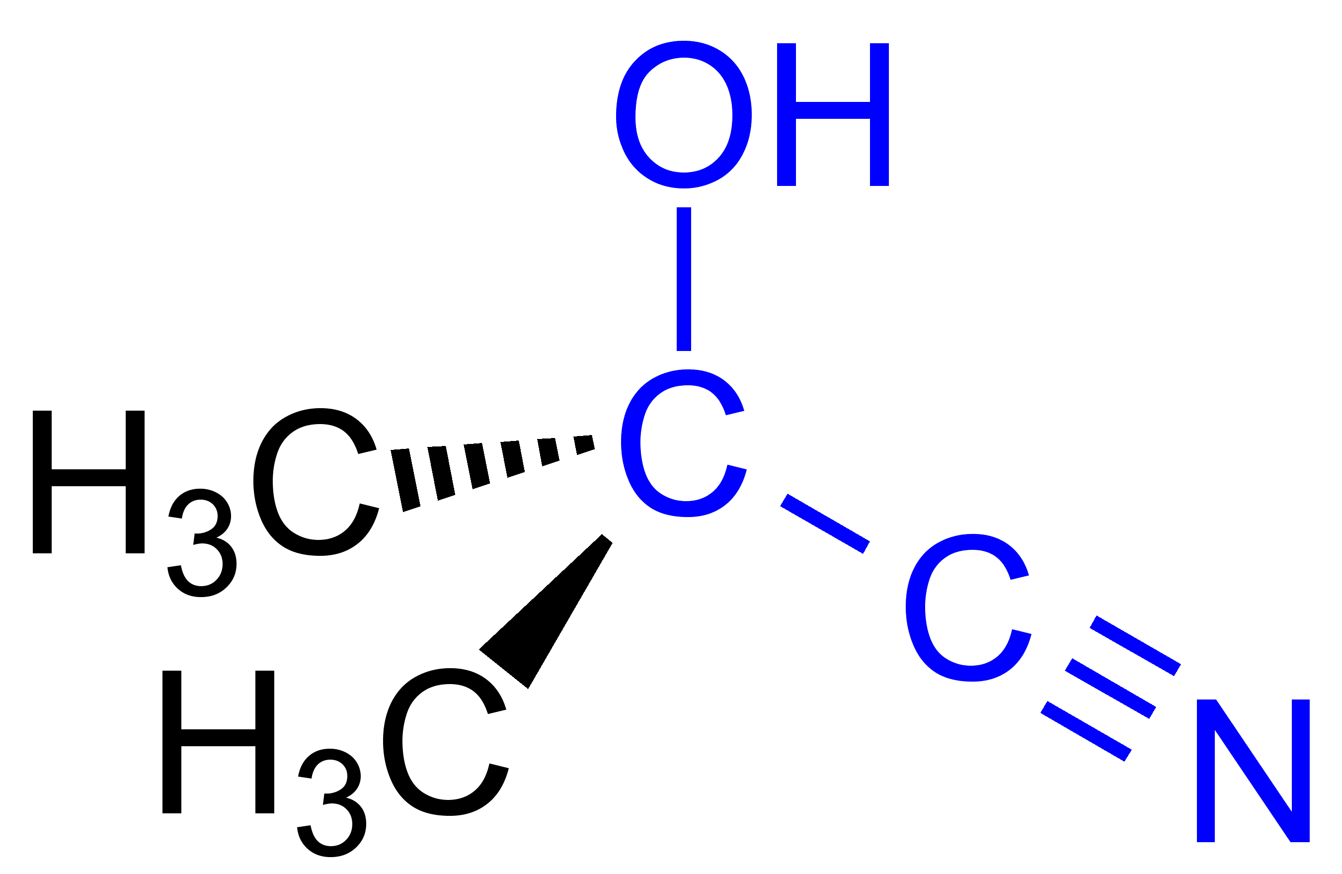 Acetone_Cyanhydrine_Structural_Formulae